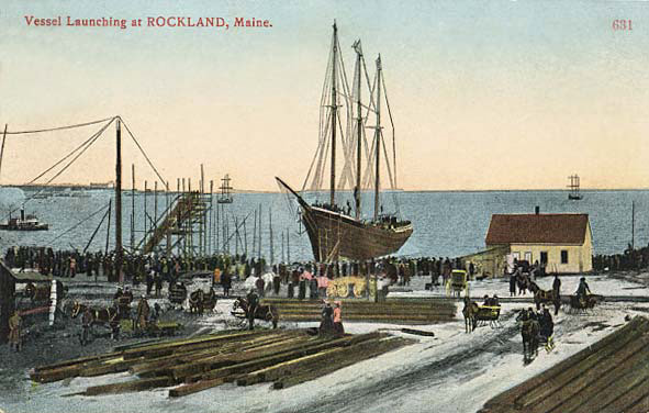 Launching a schooner from a boatyard in Rockland, Maine.